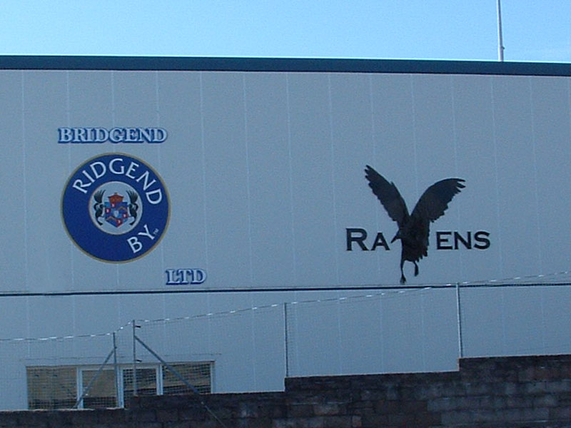 Bridgend Ravens, rear view of the Brewery Fields West stand 2006